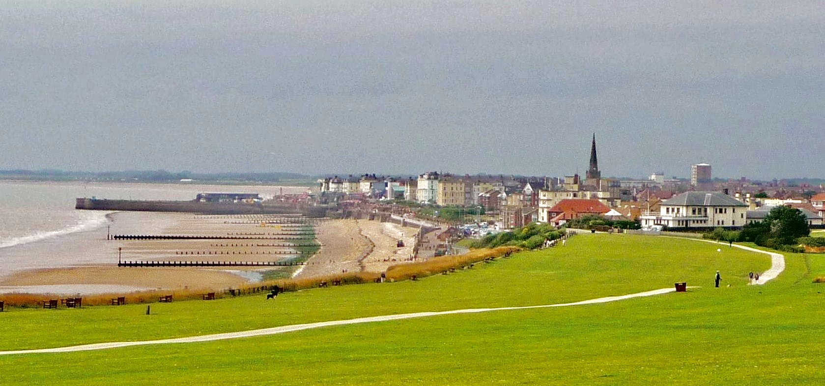 North bay Bridlington, East Riding of Yorkshire, England.